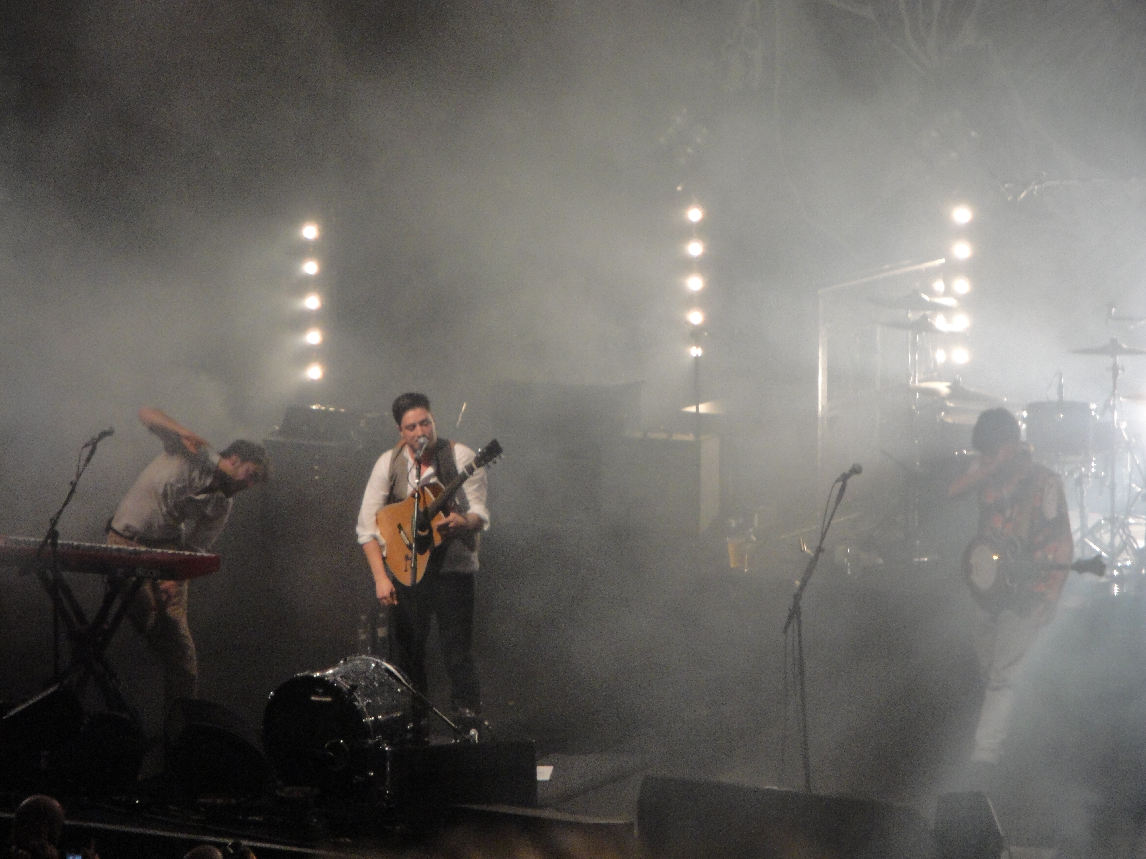 Mumford & Sons, seen during a liver performance at Brighton Dome, Brighton, East Sussex.